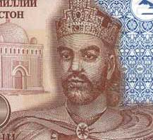 100 Somoni